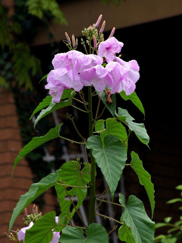 Ipomoea carnea subsp. fistulosa Family: Convolvulaceae Small tree-like perennial, native of tropical Mexico. Stems are woody, but hollow Location: Brisbane suburban, Australia.